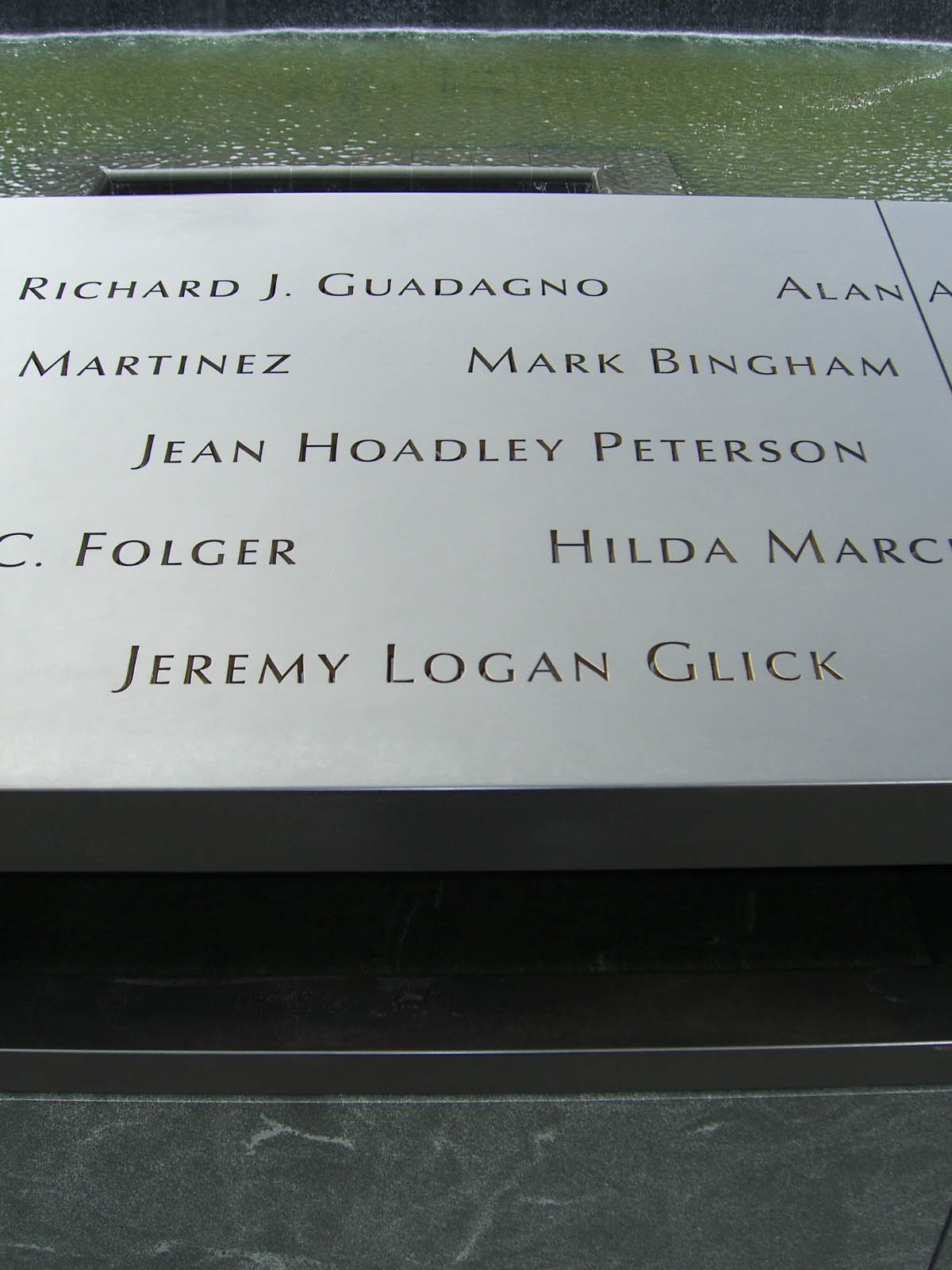 The names of Jeremy Glick and Mark Bingham are seen with those of other United Airlines Flight 93 passengers who lost their lives in the September 11 attacks on Panel S-67 of the National 9/11 Memorial's South Pool in Manhattan, as seen on April 28, 2012. This photo was created by Luigi Novi. If you have any questions, you can contact me by sending me an email or leaving a note at the bottom of my talk page.